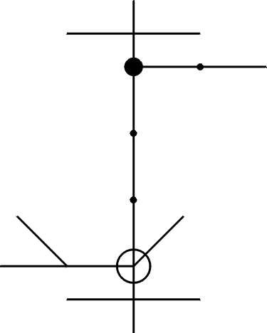 The image shows the embusen of the Heian Shodan kata, as depicted in the "Best Embusen: Shotokan" book.